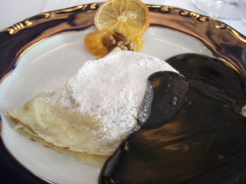 Gundel Palacsinta as served at Gundel Restaurant in Budapest, Hungary